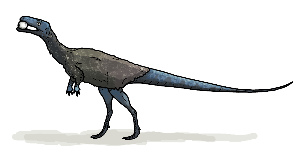 Life restoration of Pampadromaeus barberenai based on known skeletal remains. Colours speculative, feathers based on presumed presence within all Ornithodira.